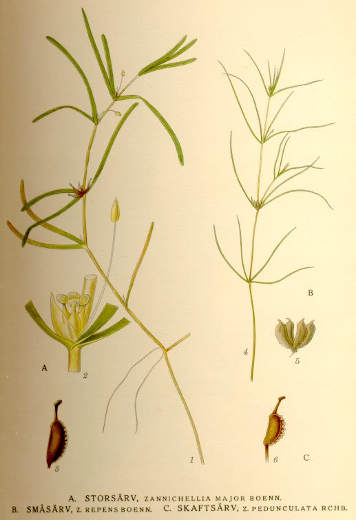 Zannichellia palustris (ssp. palustris = syn. Z. major, Z. repens, var. pedicellata = syn. Z. pedunculata)